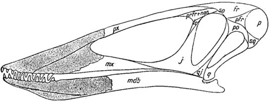 Reconstructed skull of Lonchodraco giganteus.